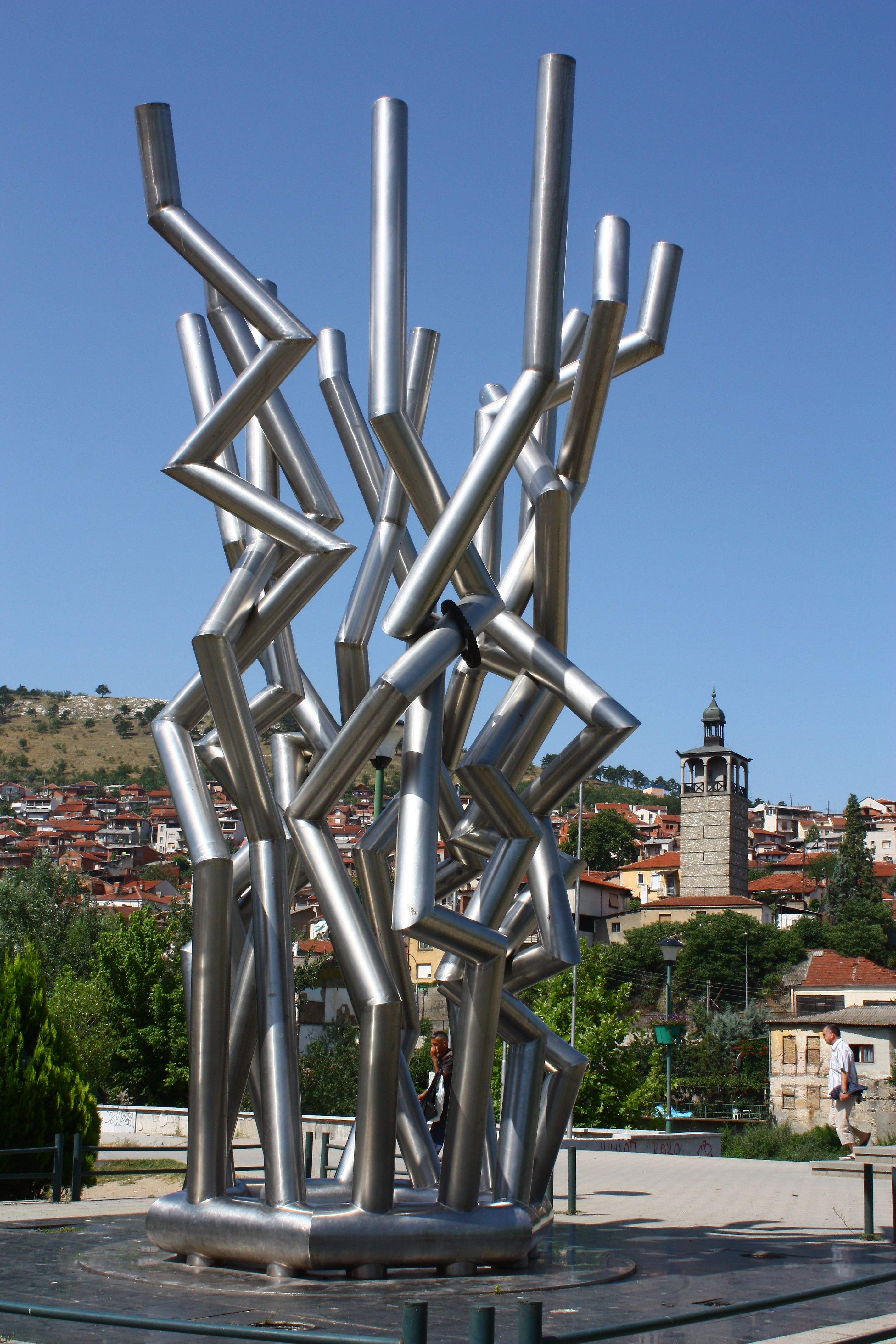 Gemidžii monument in Veles, Macedonia